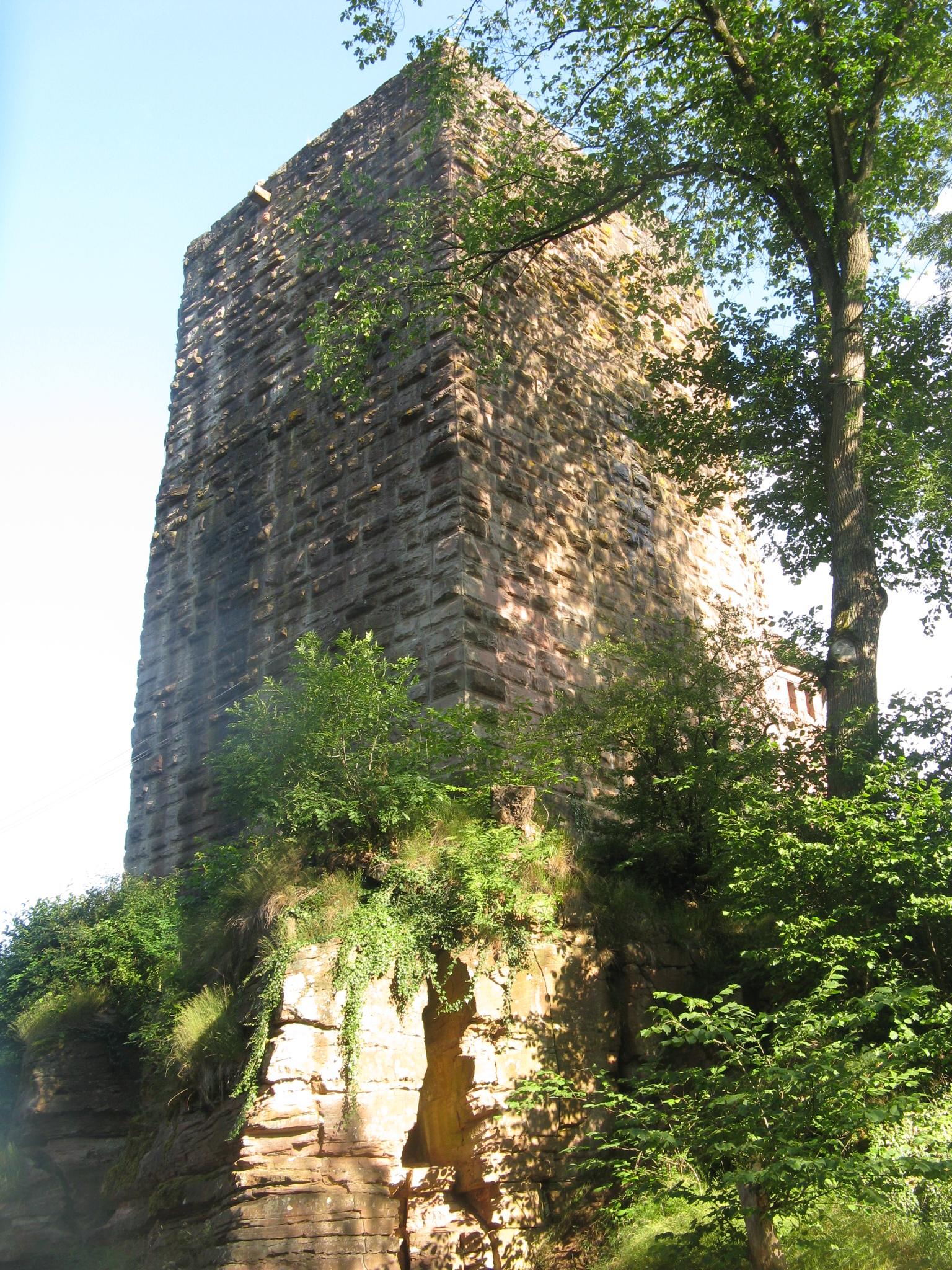 Rieneck Castle (Bavarian Spessart, Germany), Bergfried